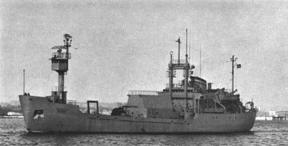 The U.S. Military Sealift Command oceanographic research ship USNS Mizar (T-AGOR-11), circa 1966.